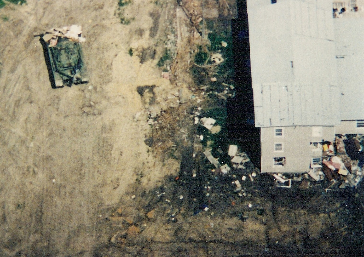 Tank passes in front of Mount Carmel with building debris hanging from its front.